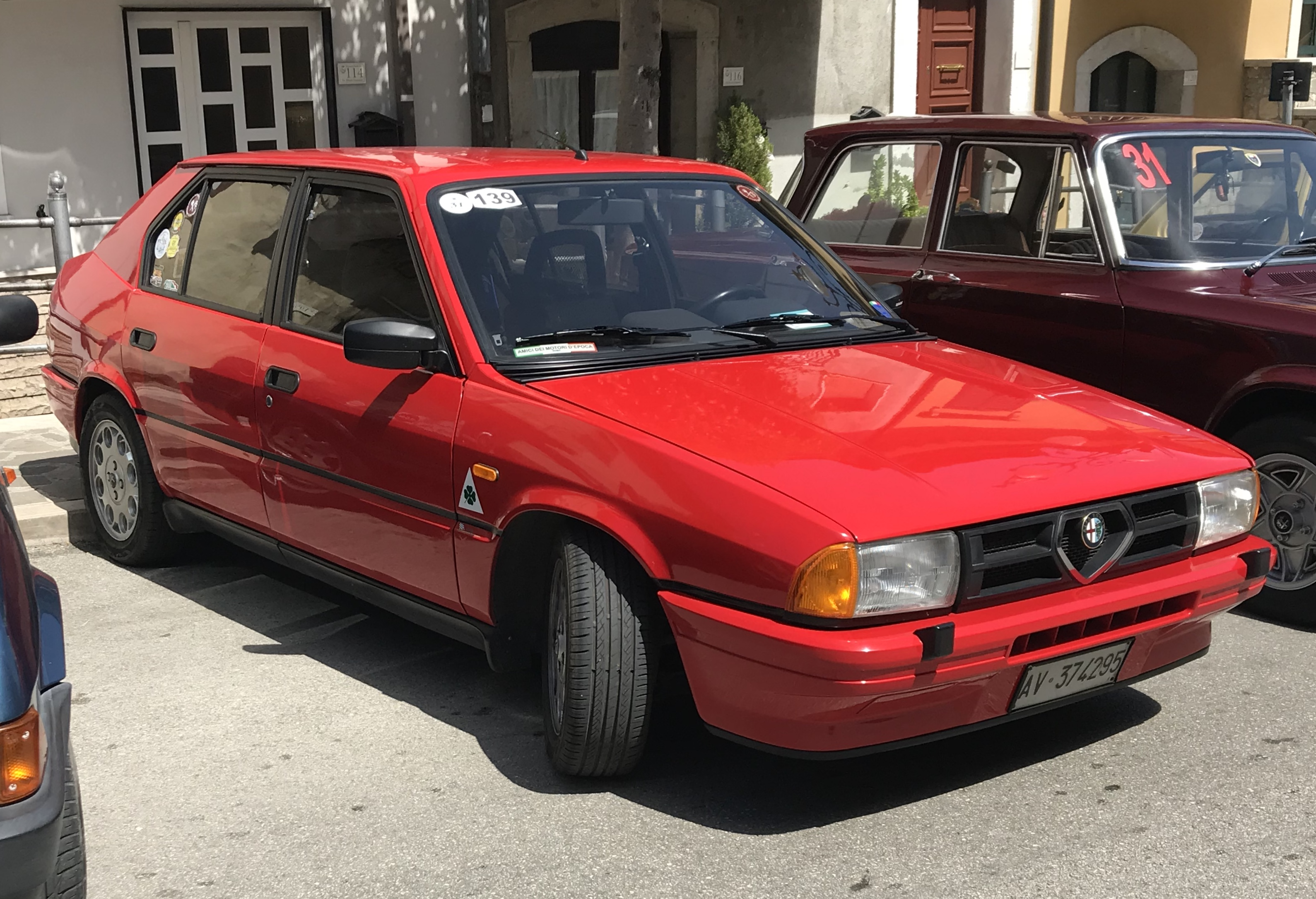 1986 Alfa Romeo 33 (905) 1.5 Quadrifoglio Verde